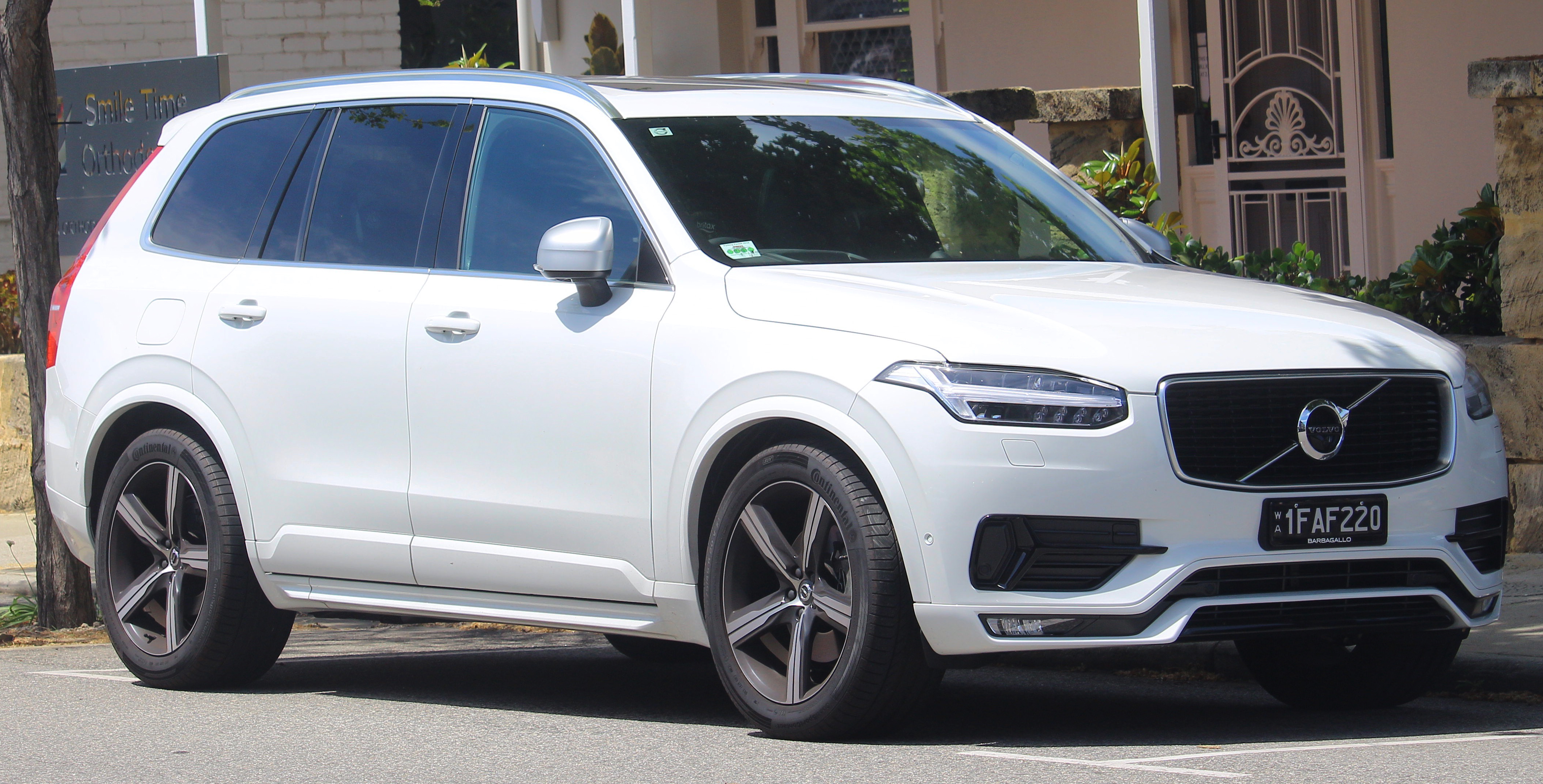 2018 Volvo XC90 T6 R-Design wagon. Photographed in Fremantle, Western Australia, Australia.